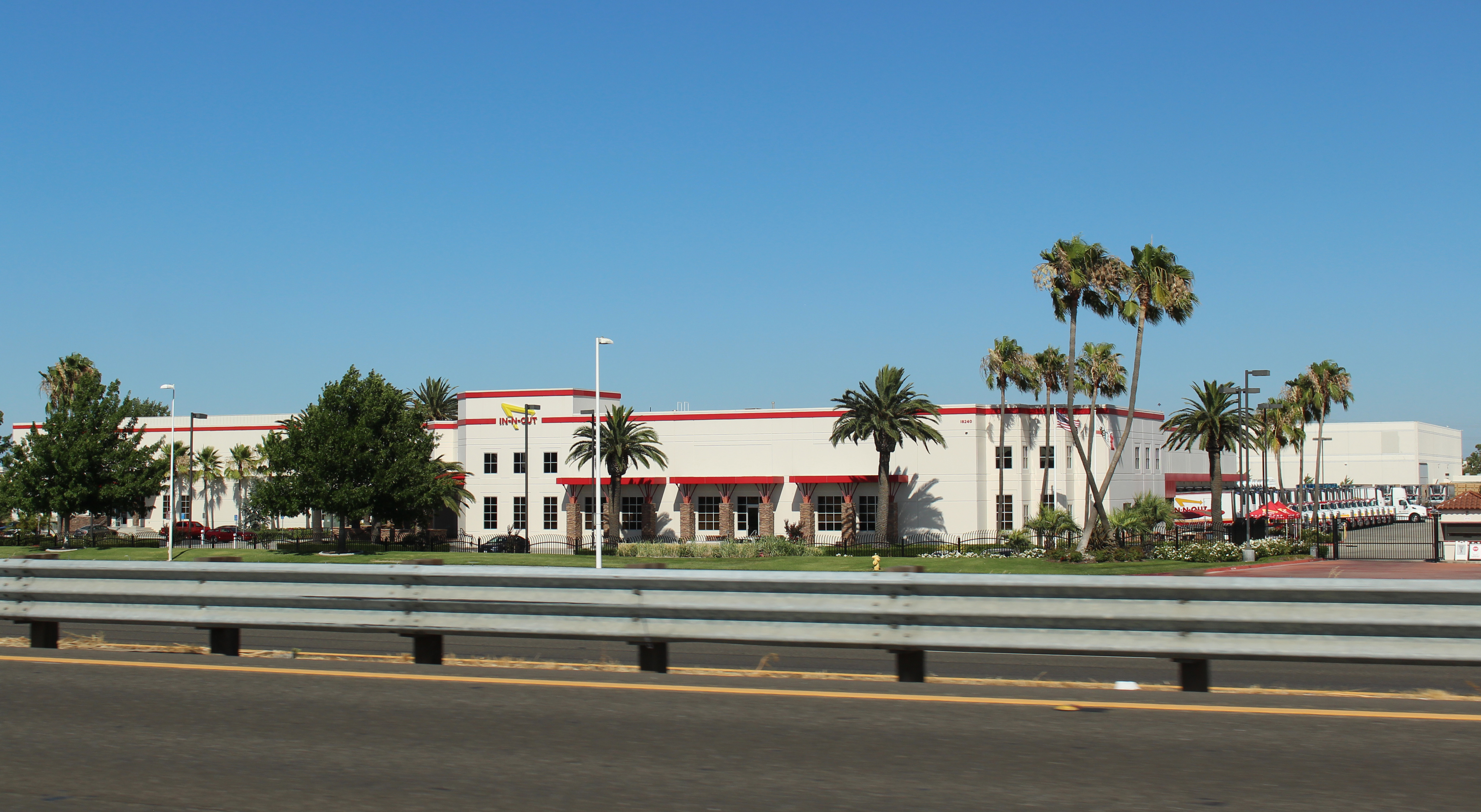 The In-N-Out Burger Distribution Center in Lathrop, California, as seen from Interstate 5. Photographed on July 5, 2020 by user Coolcaesar.